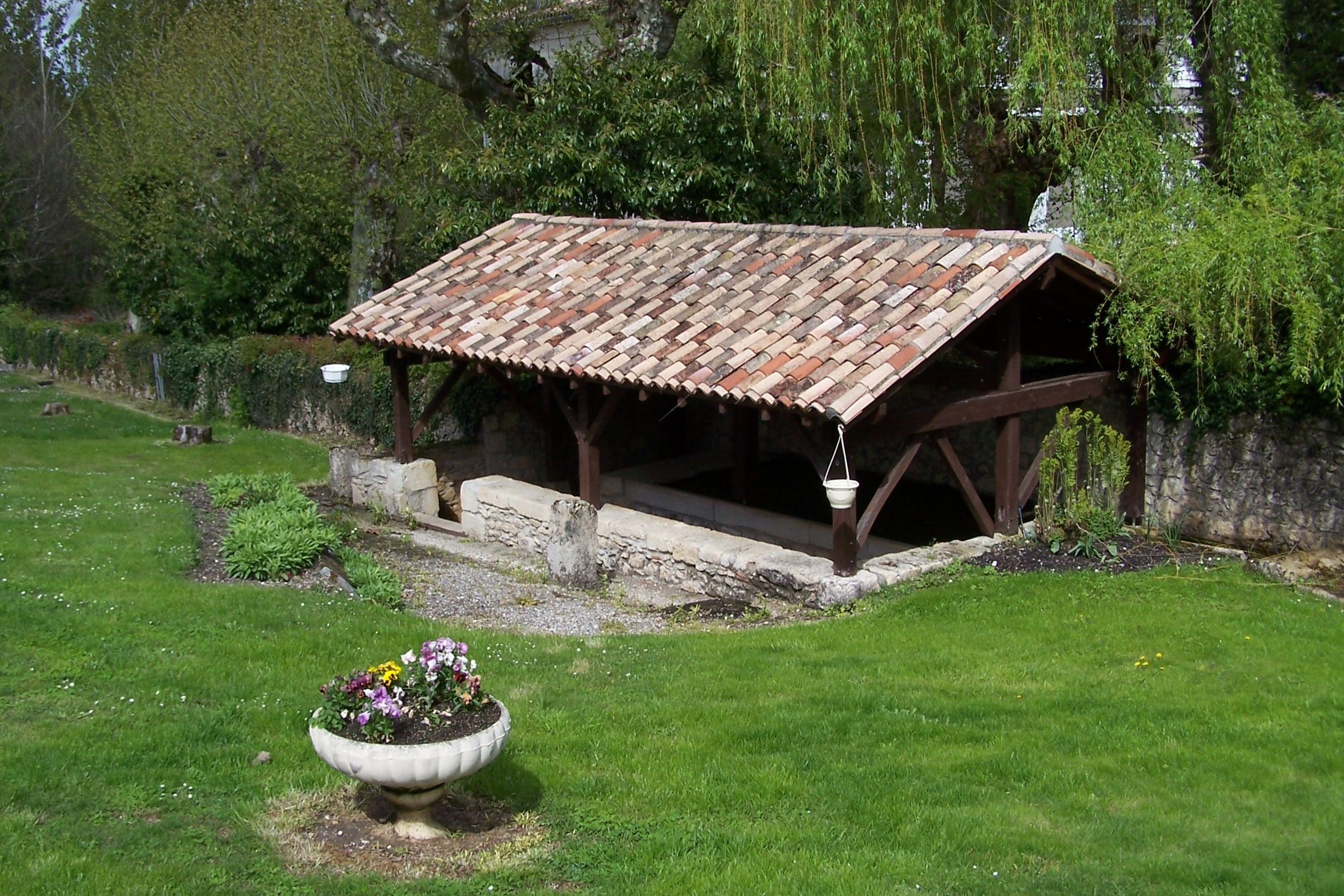 Wash house in Budos (Gironde, France)